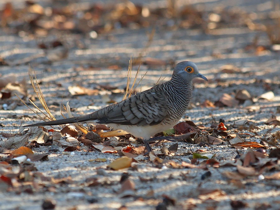 Barred Dove - Geopelia maugeus - Тиморская полосатая горлица Еndemic to the Lesser Sunda Islands in Indonesia. Komodo National Park, Komodo Island, Indonesia, 11\12\2012